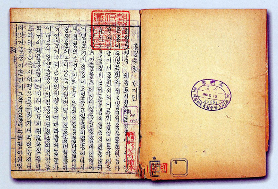 Opening page of the 17th-century Korean novel Hong Gil-dong jeon. Facing page bears a stamp from the National Library of Korea. 17세기 조선의 소설 홍길동전의 첫 페이지. 대한민국의 국립중앙도서관의 도장이 찍혀 있다.